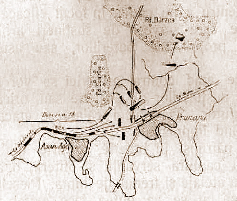 The charge of the Romanian cavalry at Prunaru, 1916Română: Şarja de cavalerie de la Prunaru, 1916)